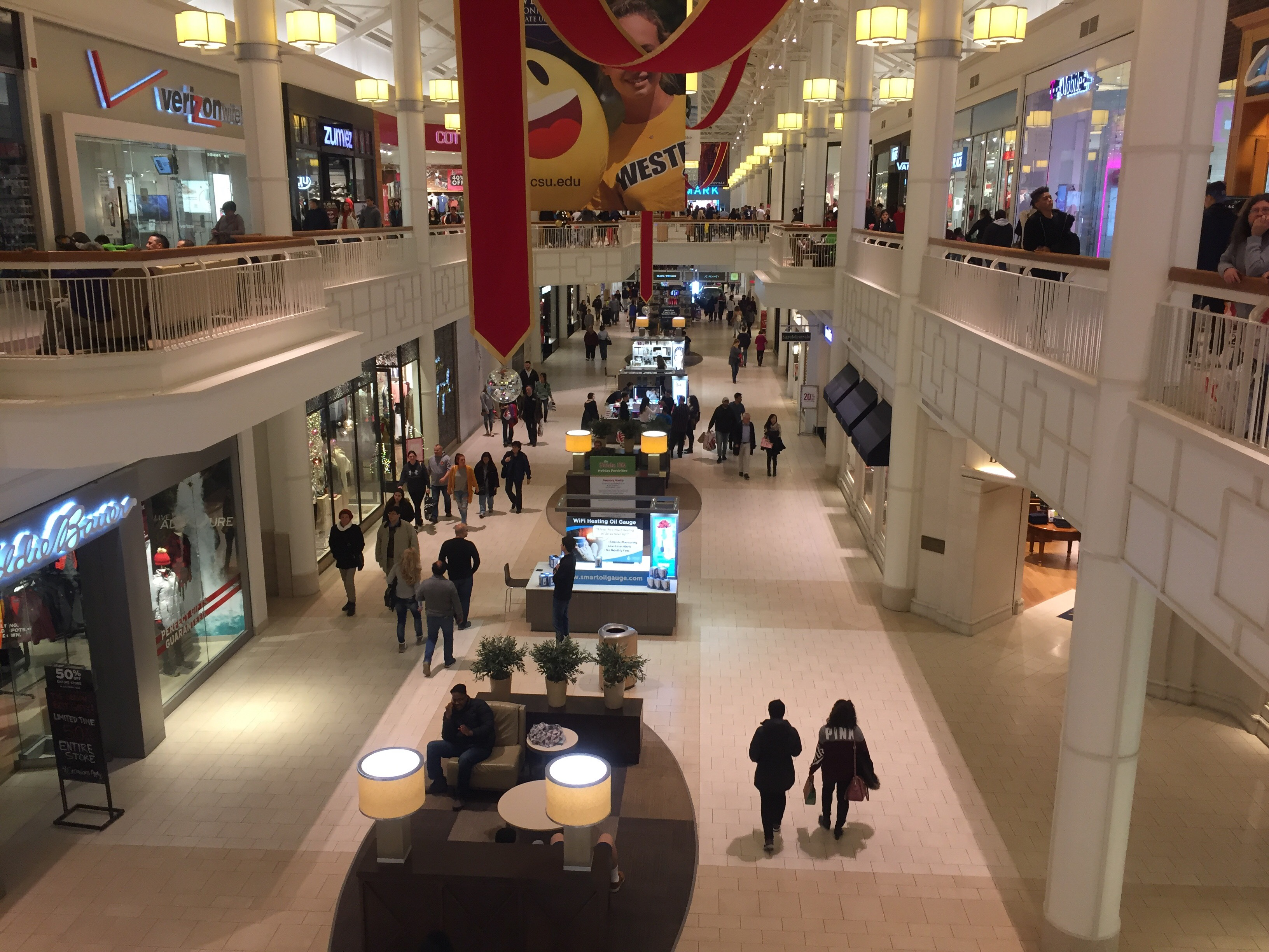 This is the interior of the Danbury Fair Mall in Danbury, Connecticut on Black Friday 2017.